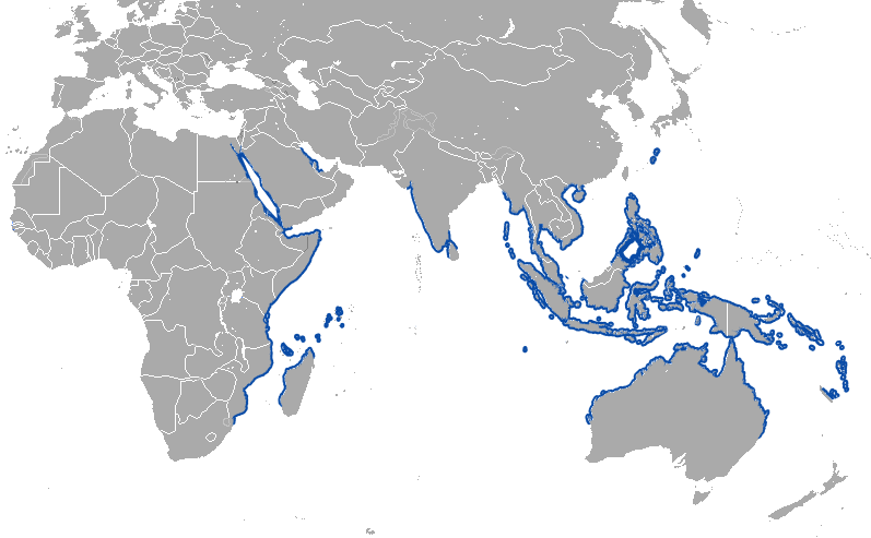 Dugong (Dugong dugon) range